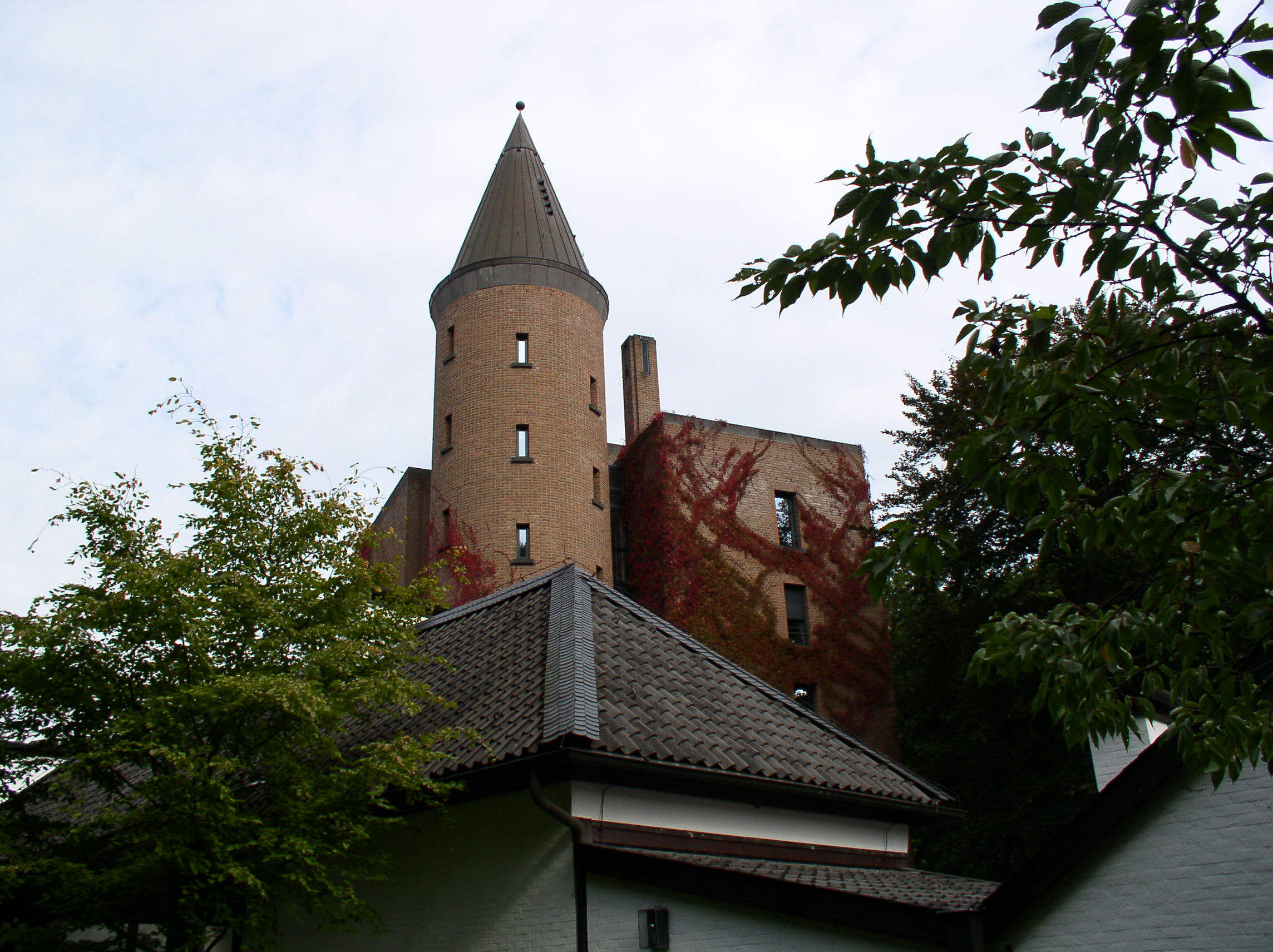 "New donjon" of Landsberg Castle in Ratingen